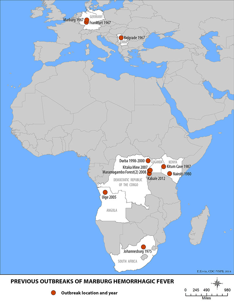 A map of outbreaks of Marburg virus disease between 1967 and 2012.